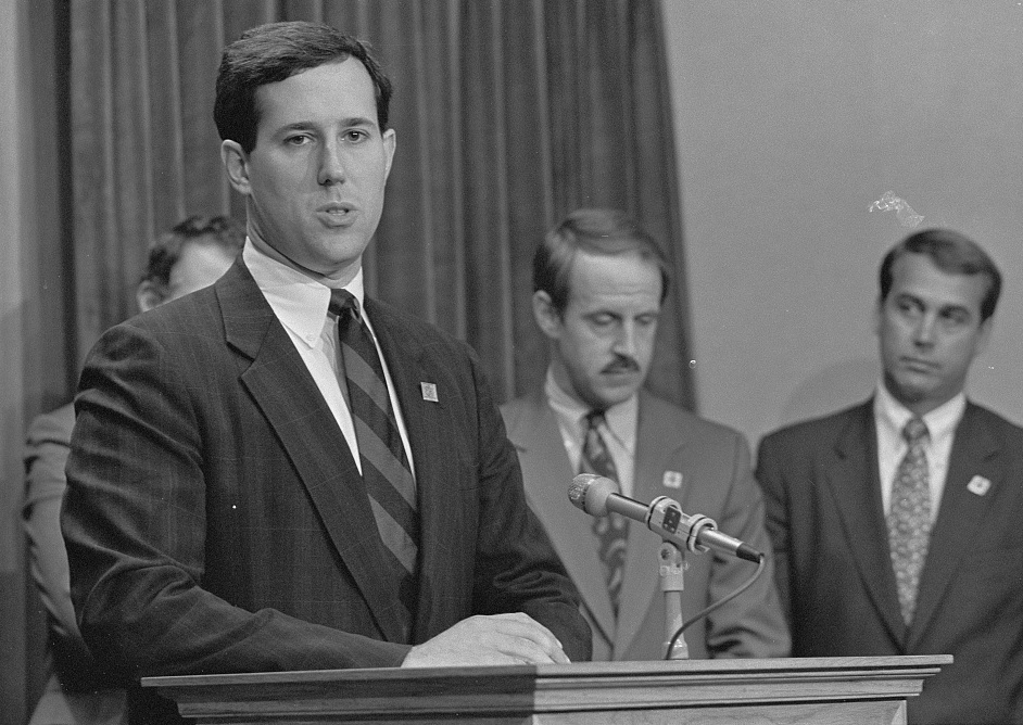 Representative Rick Santorum stands at a podium with Representatives Frank Riggs and John Boehner behind him